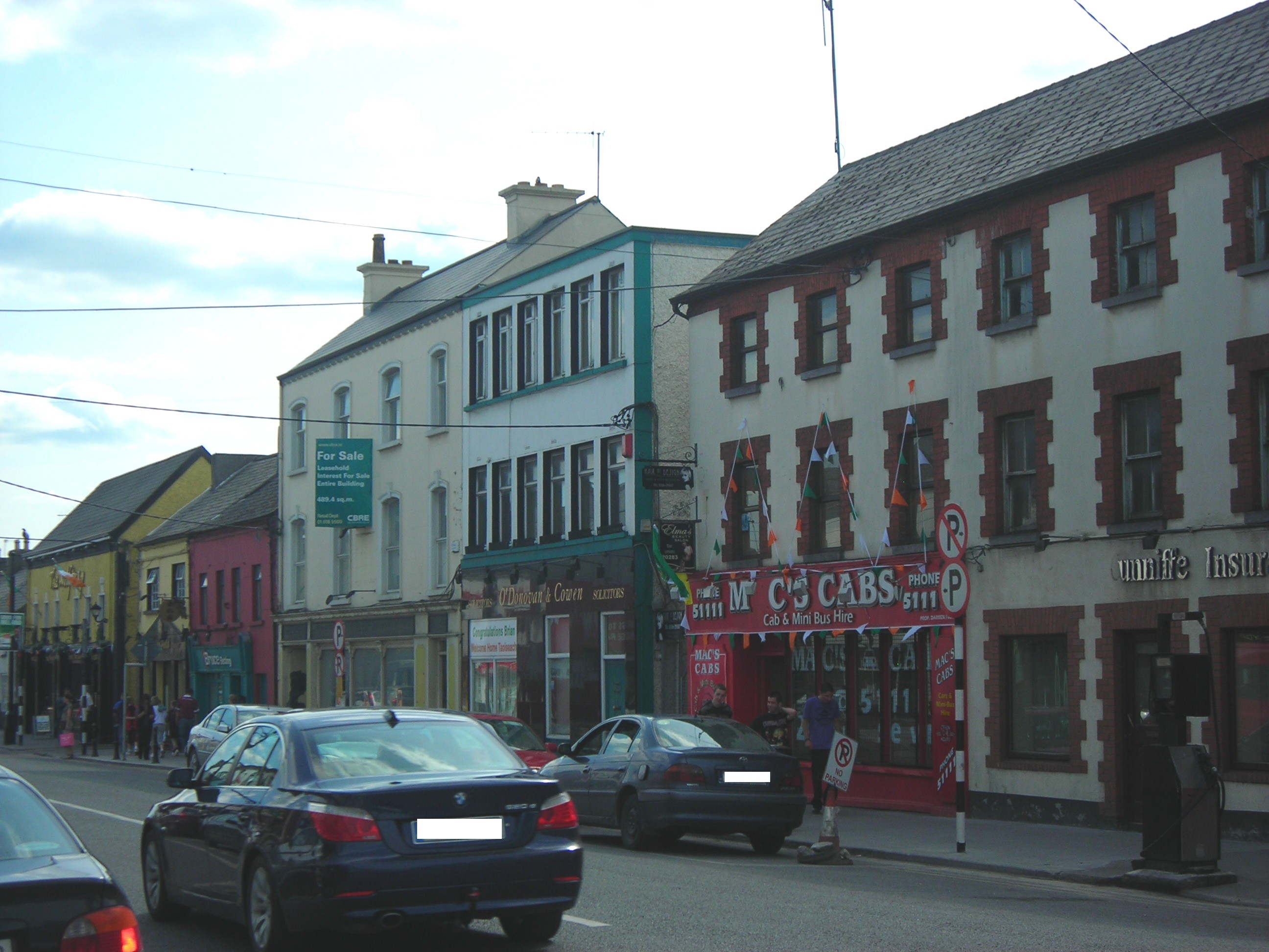 A street in Tullamore town center, Ireland, June 7th 2008